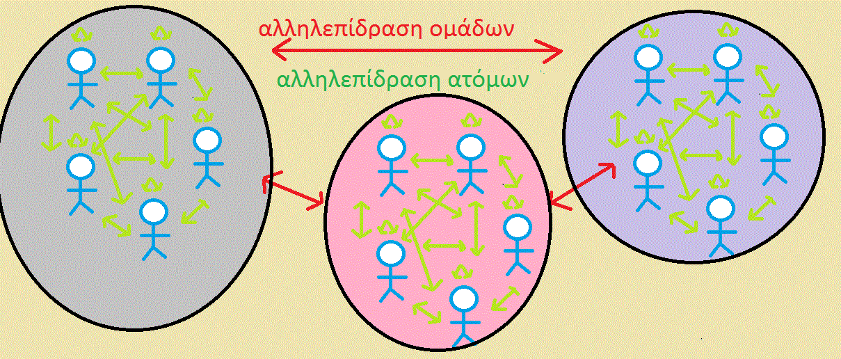 social interaction